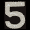 Route number signage that appeared on the front of BMT D-type (Triplex) cars from 1927 to 1964 on the New York Subway. From c1965 photostat. This number was used on trains of the Culver-Nassau Line (5).